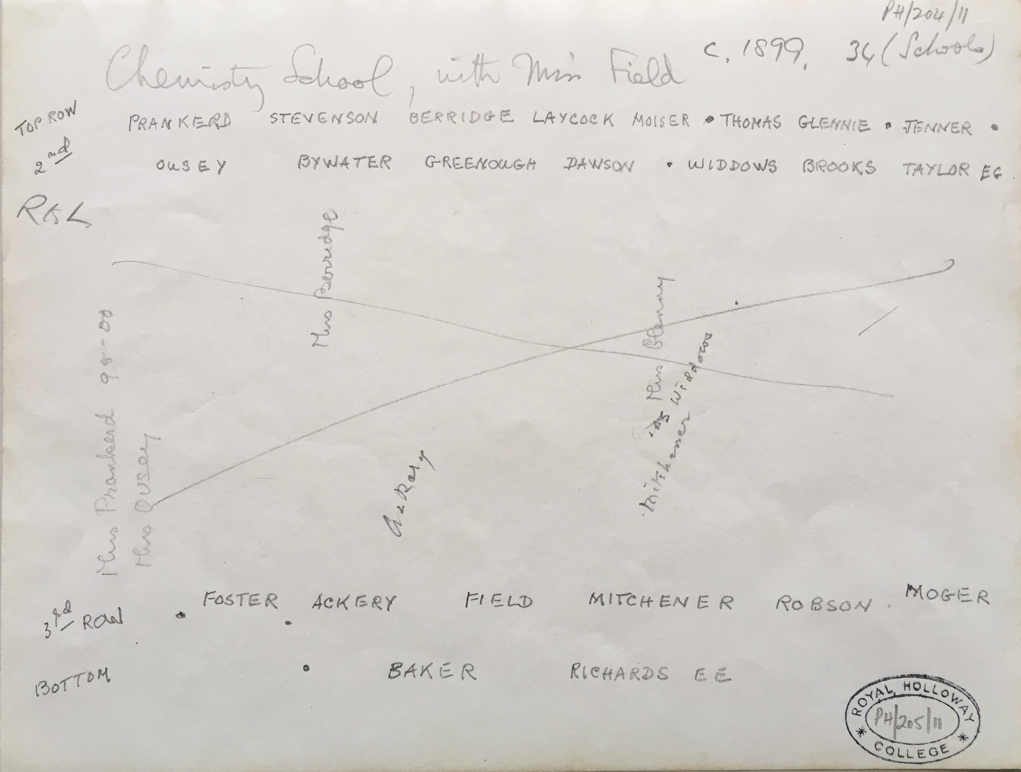 Reverse side of the image of Chemistry staff and students c.1899 at the Royal Holloway College, University of London. Elizabeth Eleanor Field is in the 3rd row down, 3rd from left.